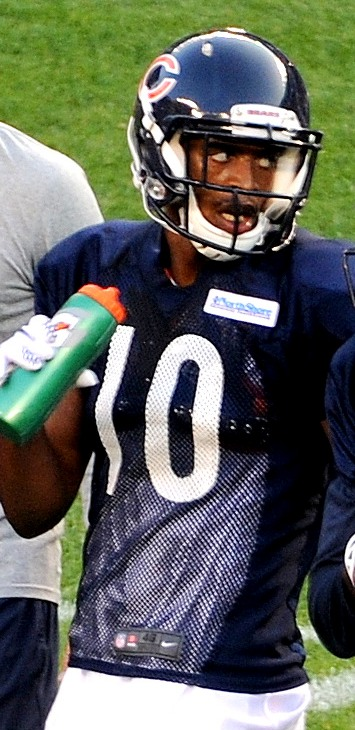 Wide receiver, Marquess Wilson, at Chicago Bears training camp in 2014.